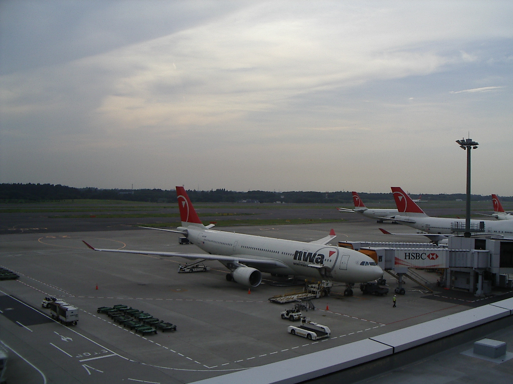 Northwest Airlines docked at Narita International Airport